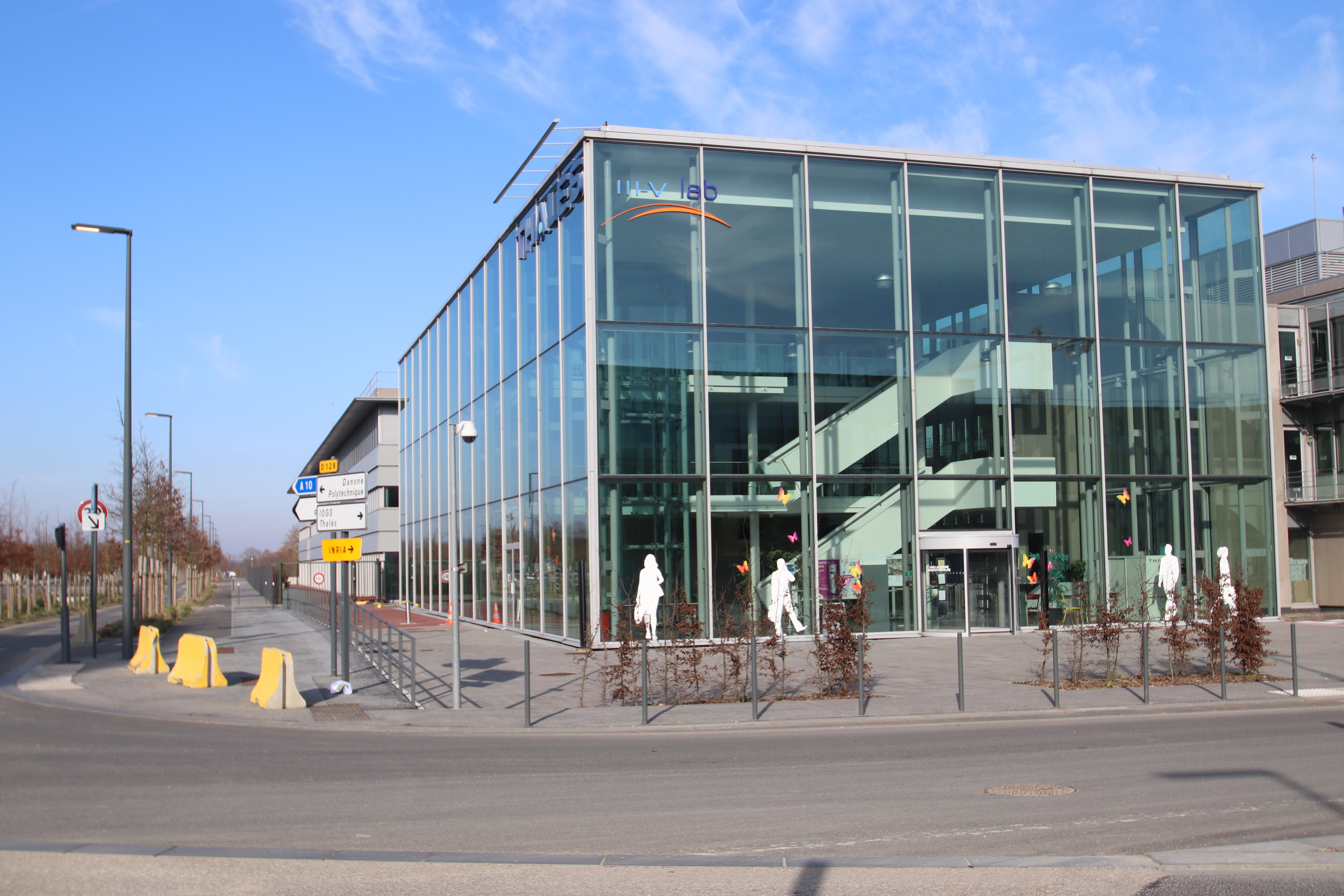 Thales buildings in Palaiseau, France. Object location48° 42′ 54.43″ N, 2° 12′ 12.74″ E